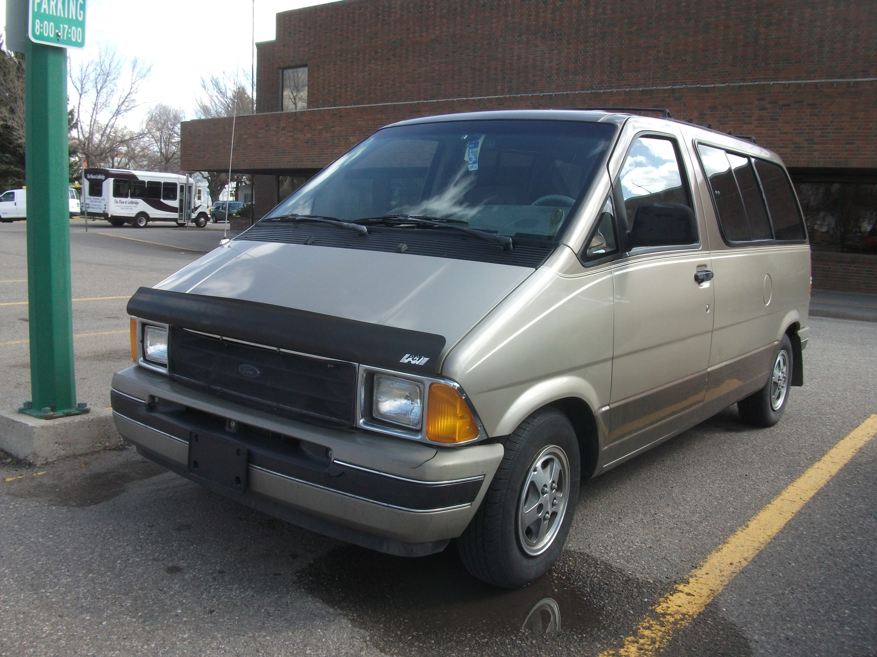 Front 3/4 view of a 1989-1991 standard-length Ford Aerostar XLT Wagon.